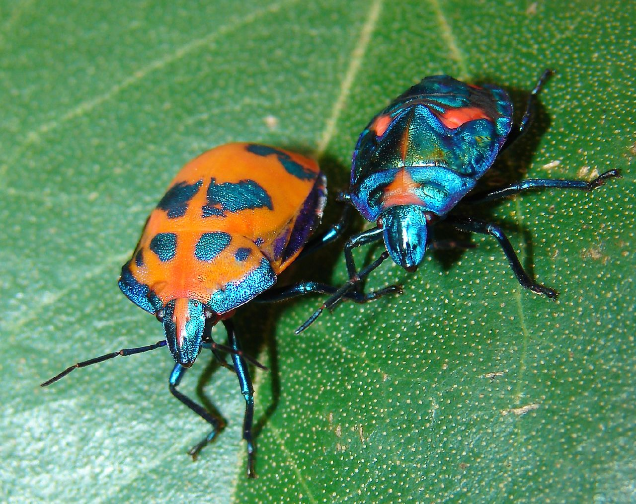 Cotton Harlequin Bugs (Tectocoris diophthalmus Original description: I noticed the other day that one of the trees at work had some cute little bugs on it, so I decided to take my camera into work today. I waited until lunchtime and then went and took some snaps. I had to climb in under the branches which where about shoulder height, it wasnt until I was surrounded by branches that i discovered that the leaves where teaming with bugs, which kind of freaked me out. I didnt take a lot of photos and will try again tommorrow